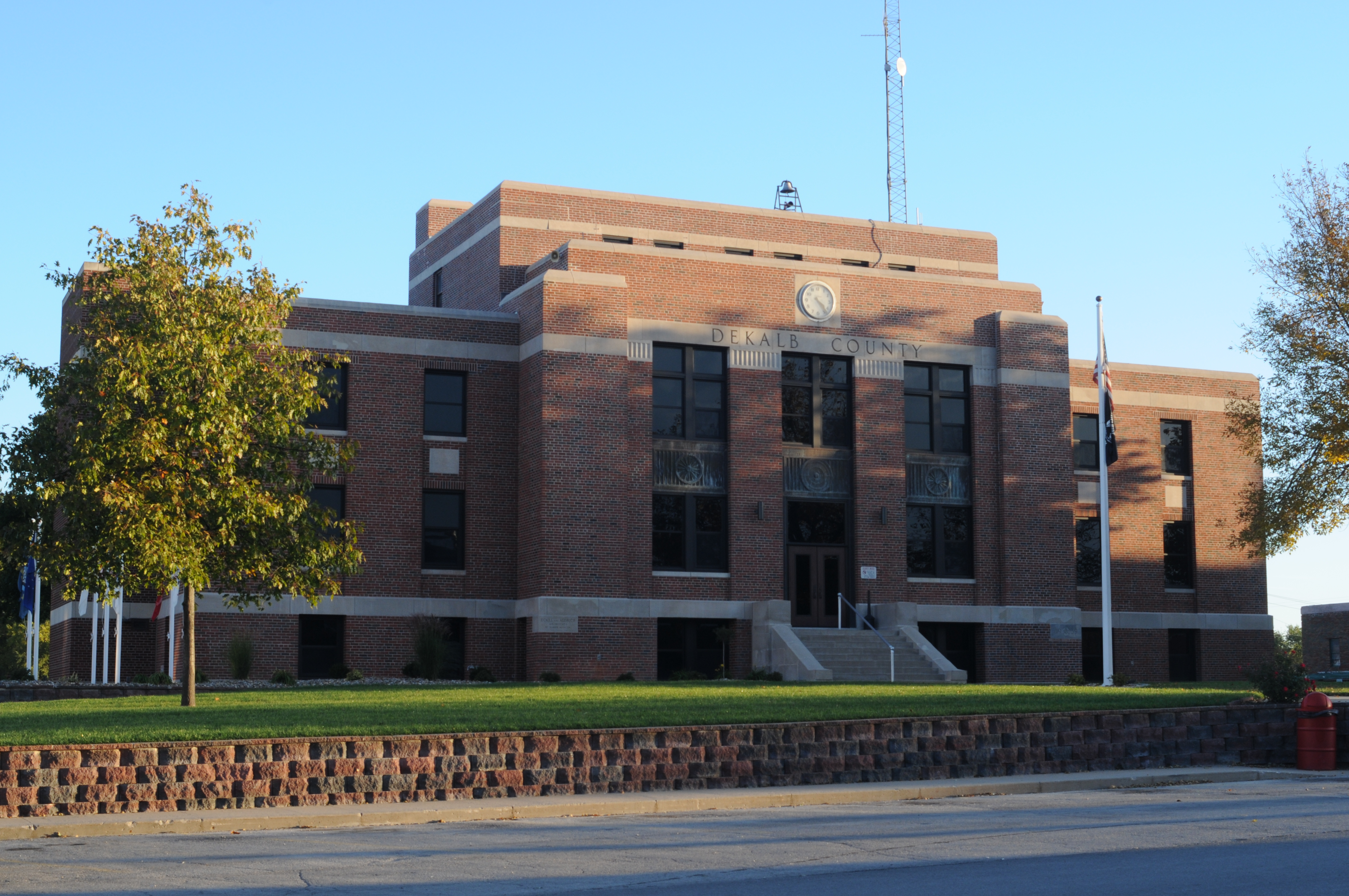 Missouri's DeKalb County courthouse as viewed from the south.